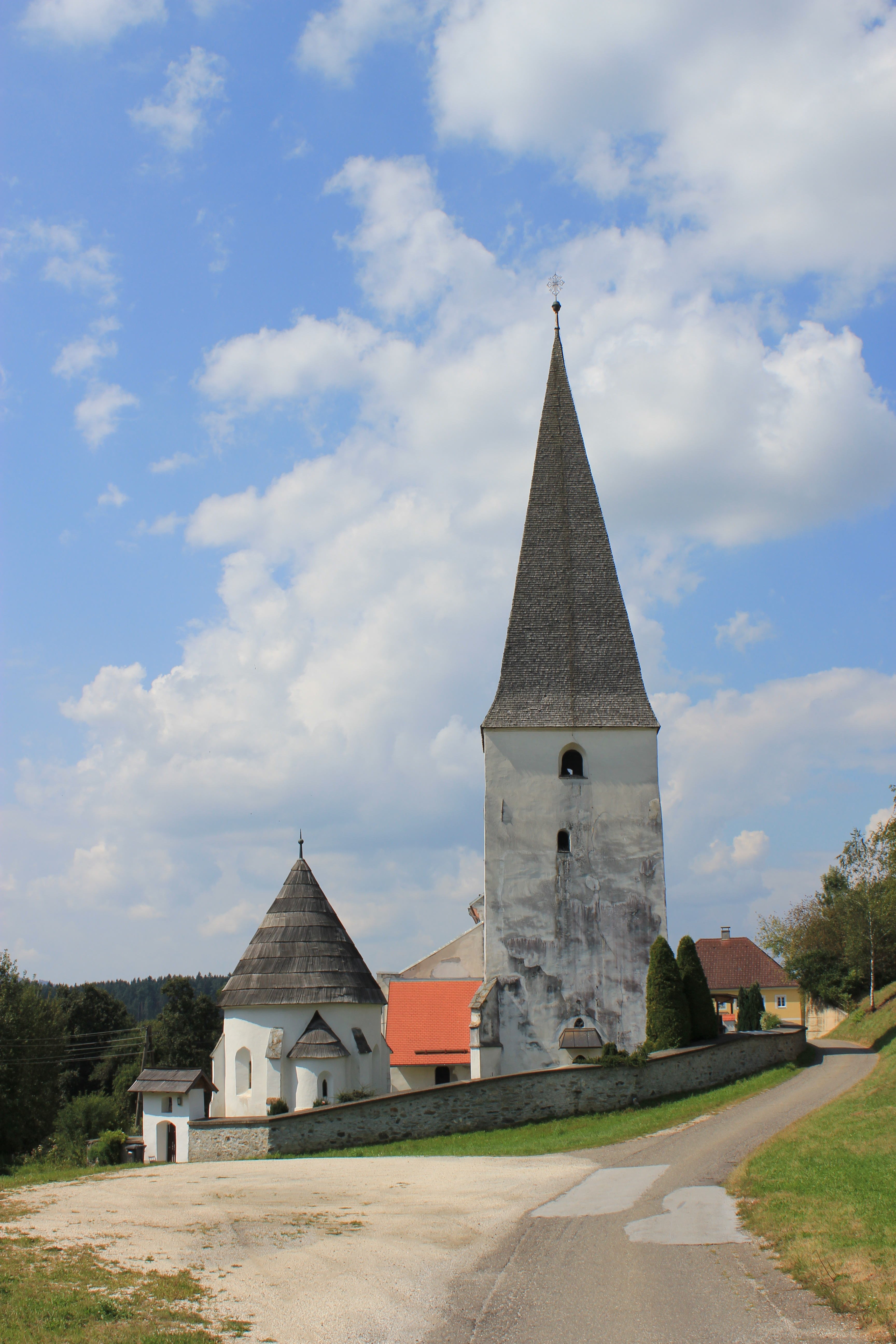 Church in Sankt Agnes1, municipality Voelkermarkt, district Voelkermarkt, Carinthia / Austria / EU